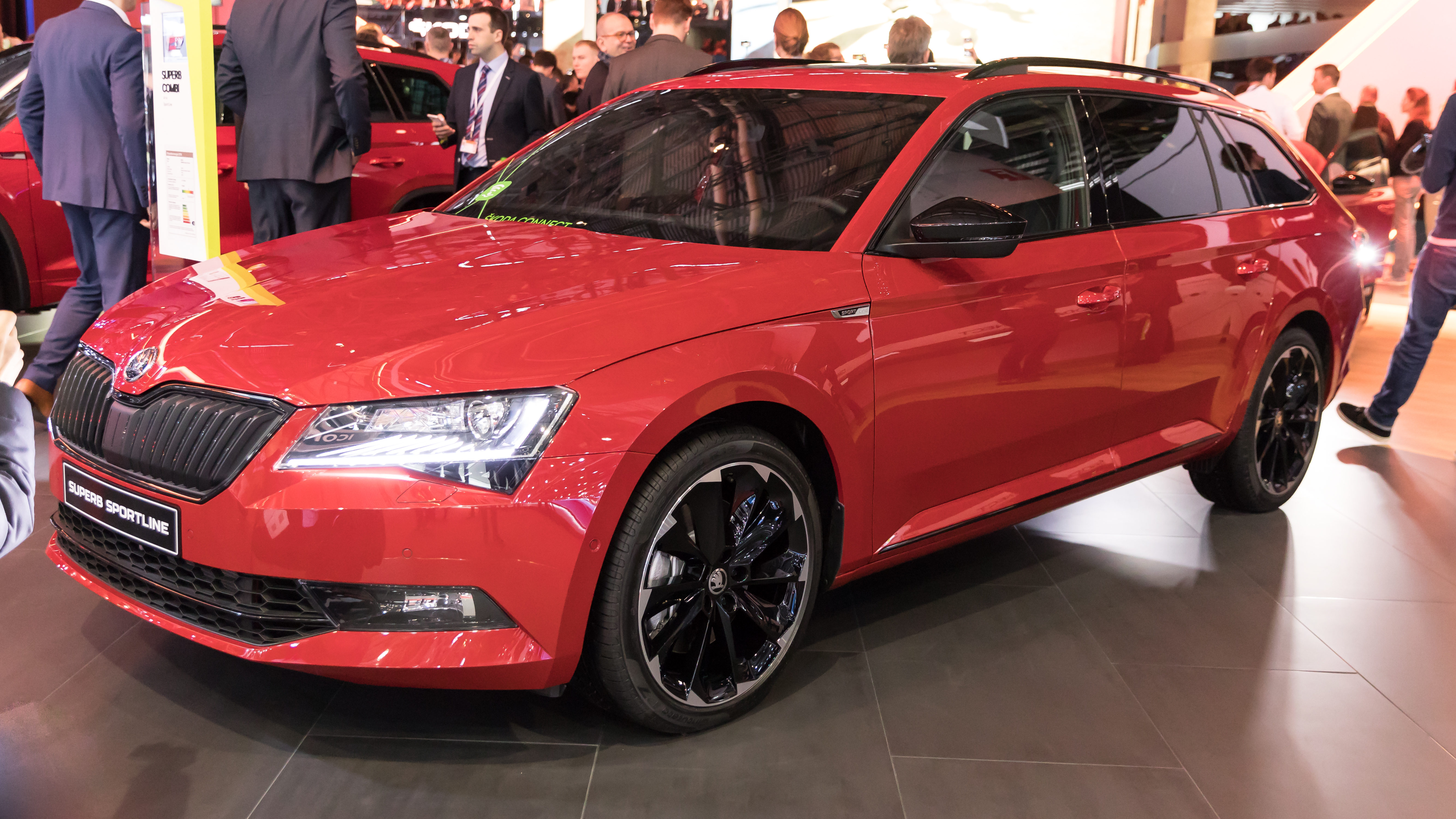 Geneva International Motor Show 2018